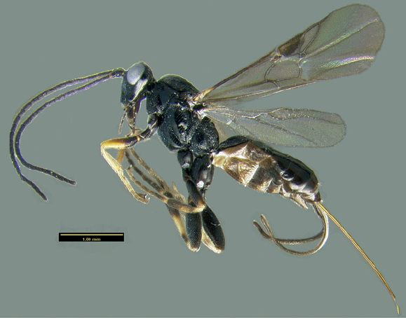 Agathis sp.